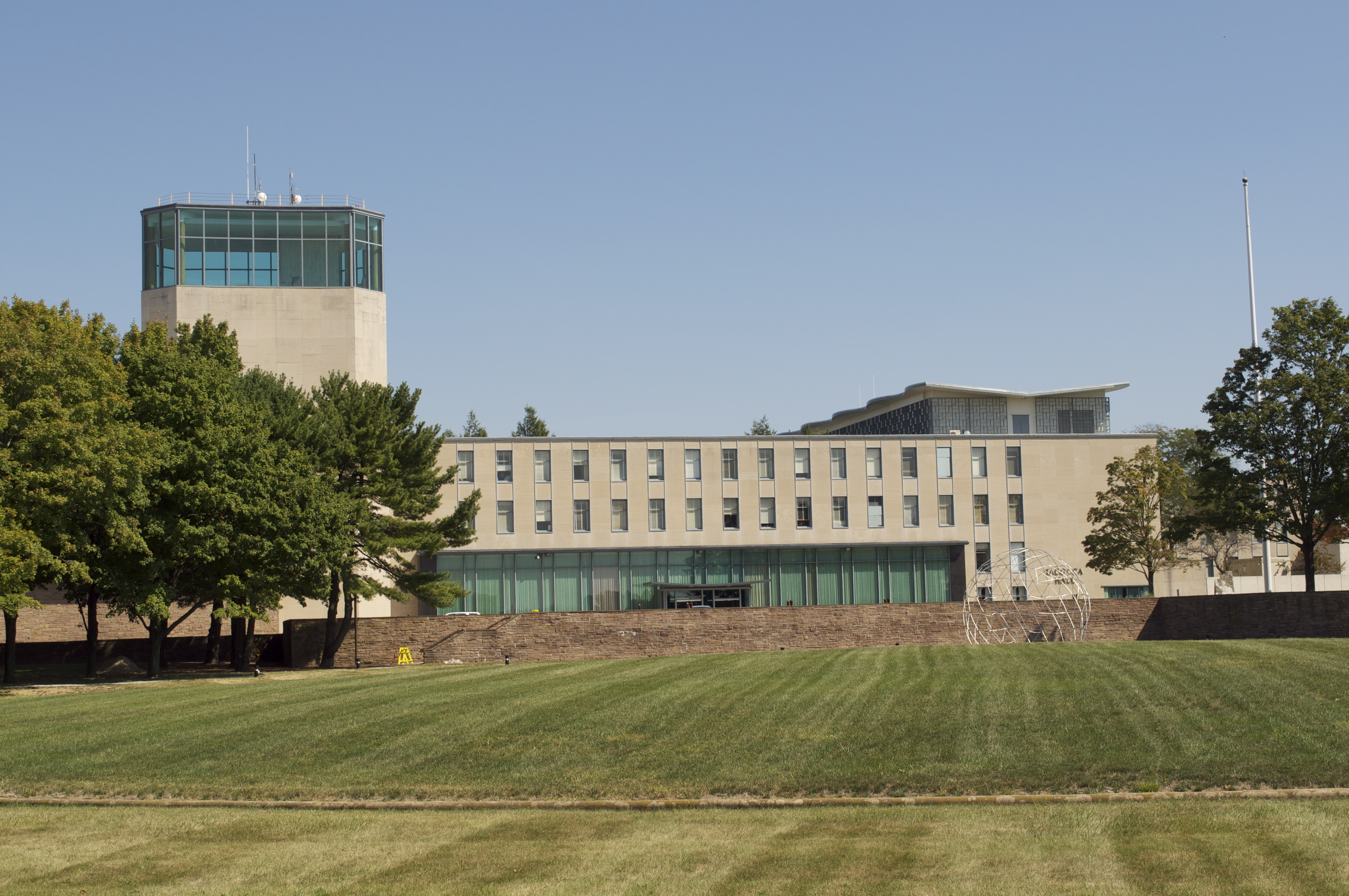 Lehigh University's Mountain Top Campus. Building is called Iacocca Hall.